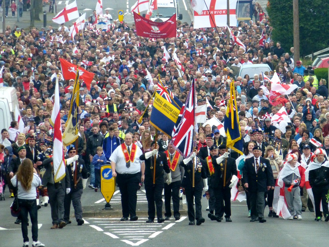 St George's Parade on Westminster Road, Stone Cross (20.04.2014)